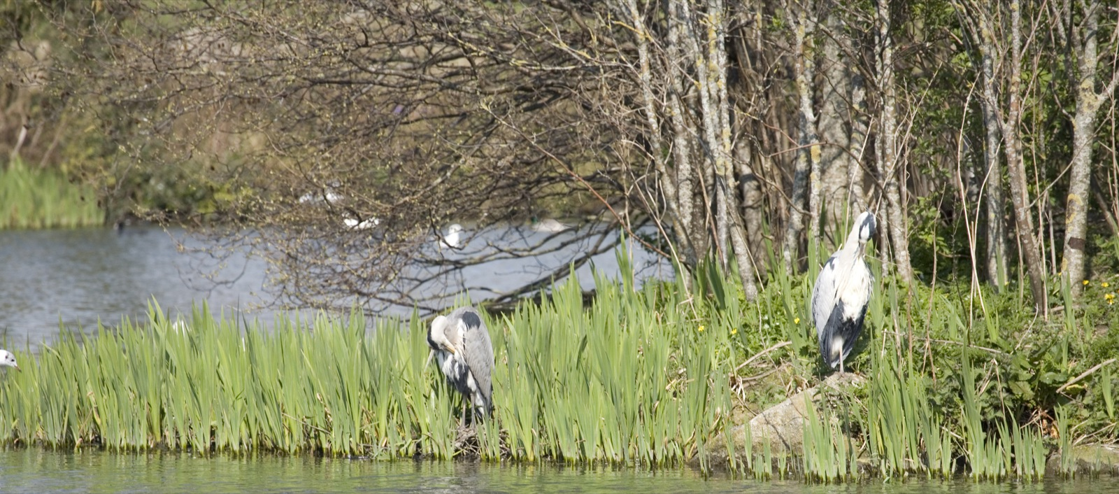 Very pleasant public park near "The Square" Tallaght.